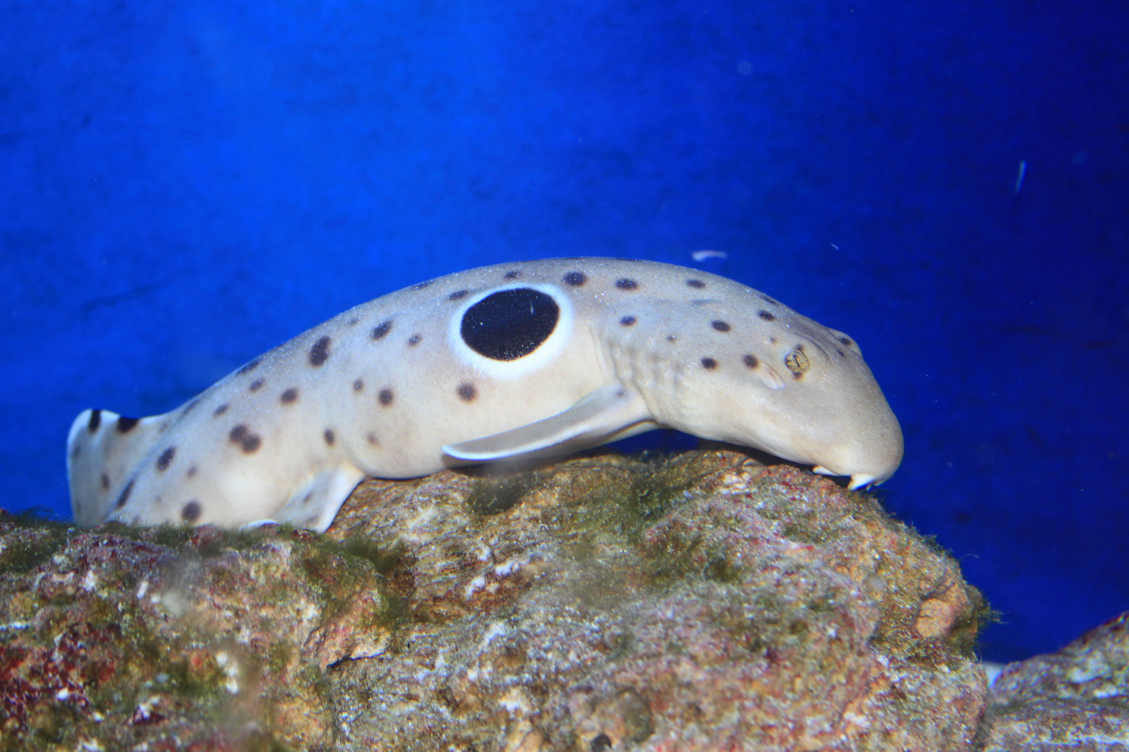 Epaulette shark (Hemiscyllium ocellatum) at the Adventure Aquarium, Camden, NJ, USA